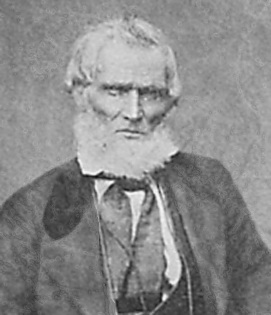 Photo of Jefferson Hunt, a captain in the Mormon Battalion, brigadier general in the California State Militia, a California State Assemblyman, and a representative to the Utah Territorial Legislature.